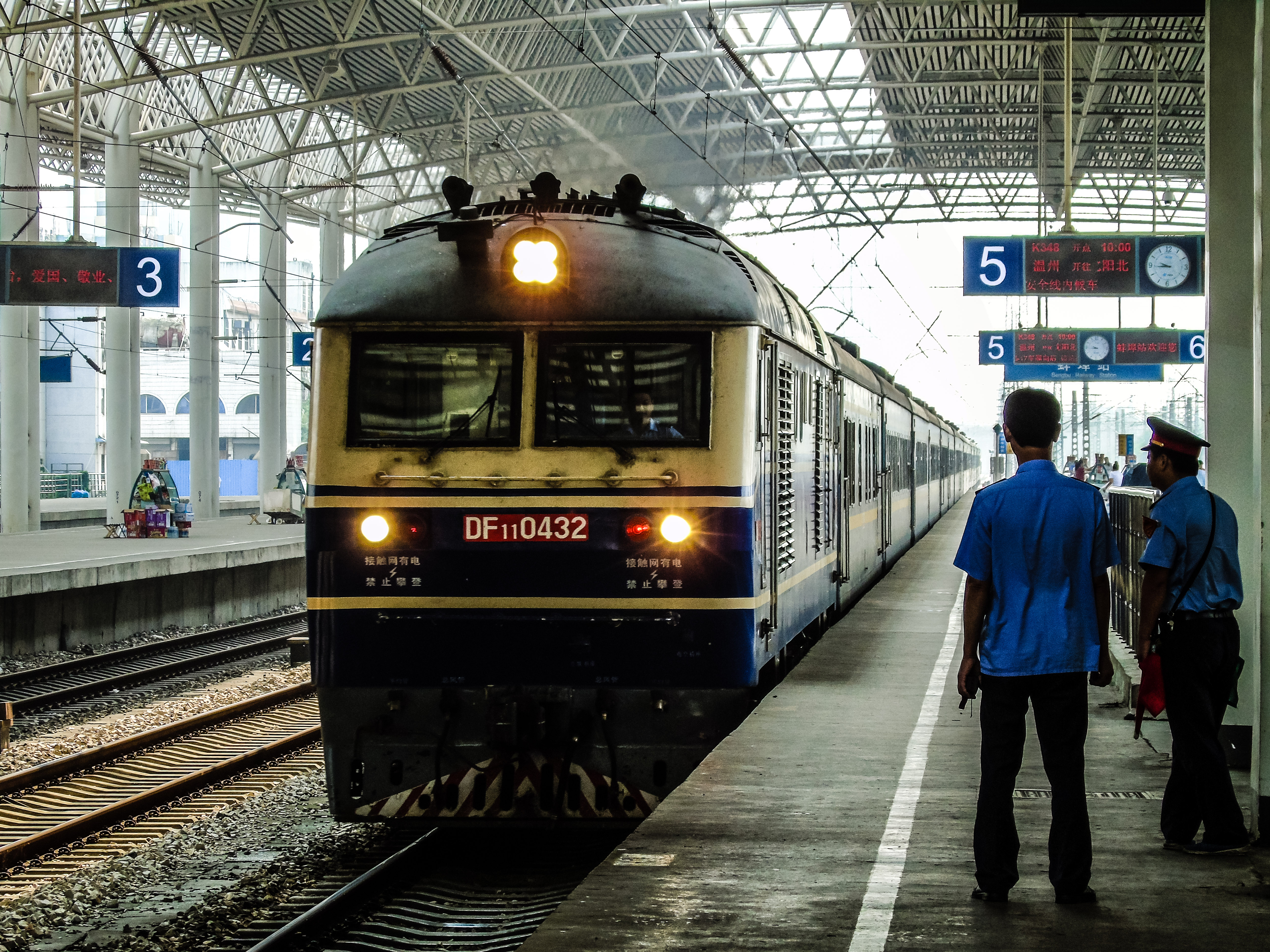 DF11-0432 Hauls K348 at Bengbu Railway Station